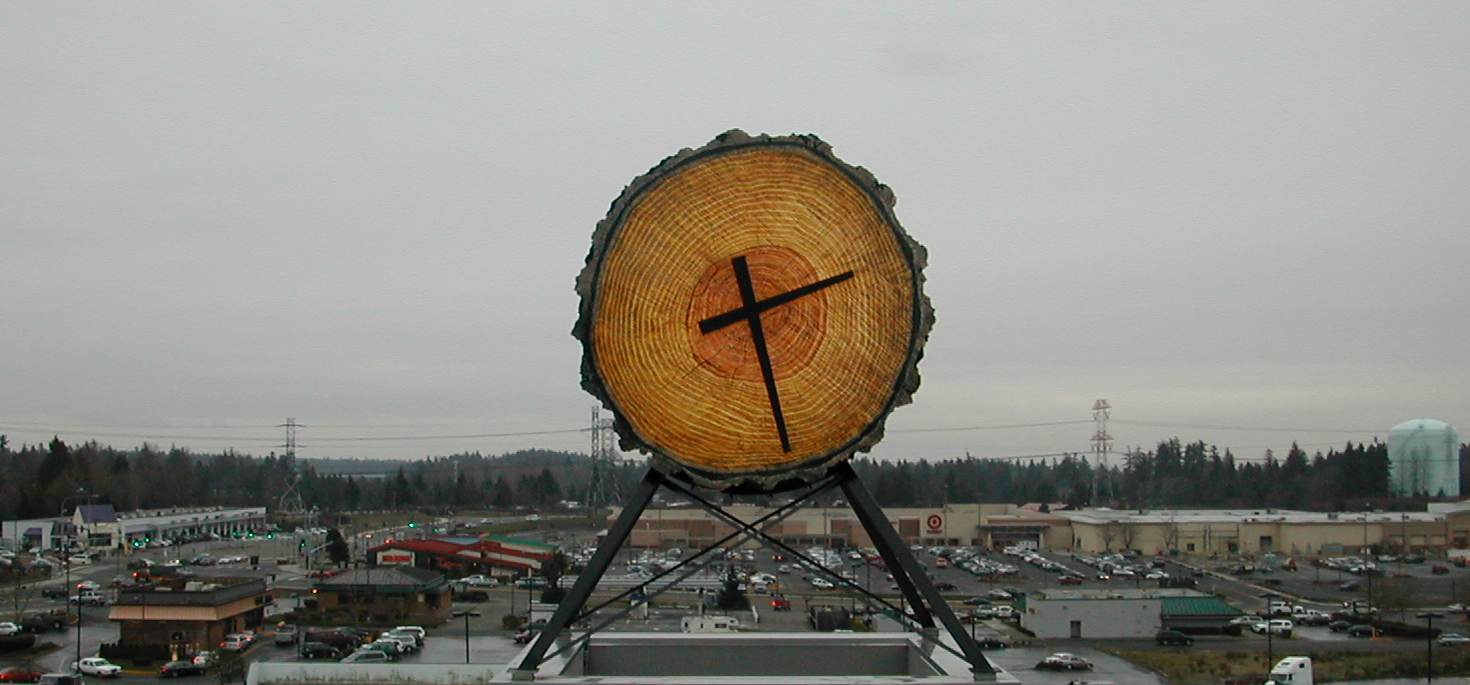 Closeup of the Log Clock at the Federal Way Transit Center, with the Commons Mall and other downtown stores in the background